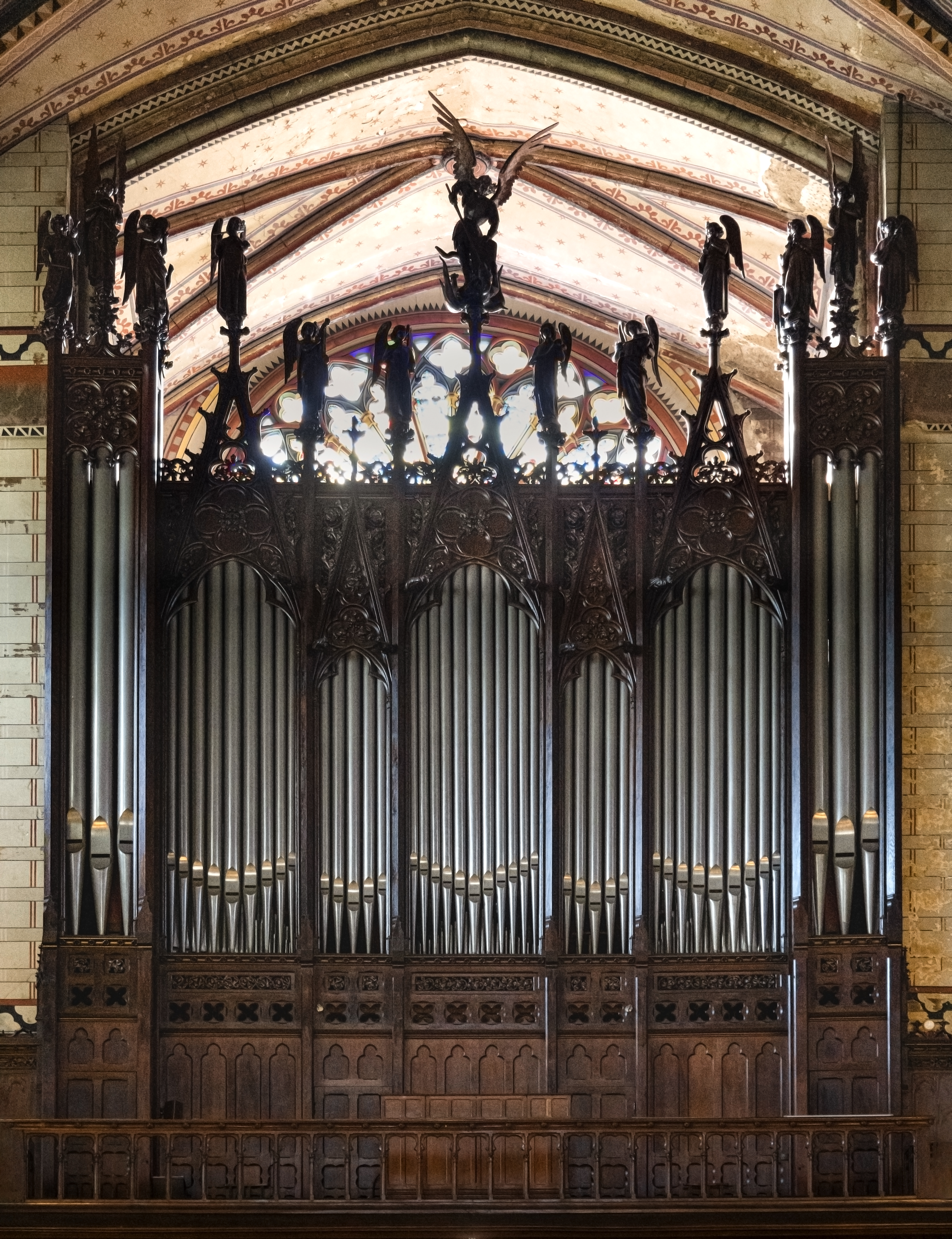 Gallery organ Carcassonne Cathedral, Aude France. Built in the workshops of Aristide Cavaillé-Coll, in Paris, the great organ is installed in 1860. The Neo-Gothic style oak cabinet, from 1857, is due to the Parisian carpenter Ronsin. Designed by Viollet-le-Duc, this set of cabinetry contains a series of human-sized sculptures surmounting turrets and pilasters which it is difficult to appreciate all the finesse from the nave. In the center, a magnificent archangel Saint Michael slaying the dragon and surrounded by thirteen statues of angels musicians. All these decorative parts come from the workshop of the master-sculptor Claude-Anthime Corbon.